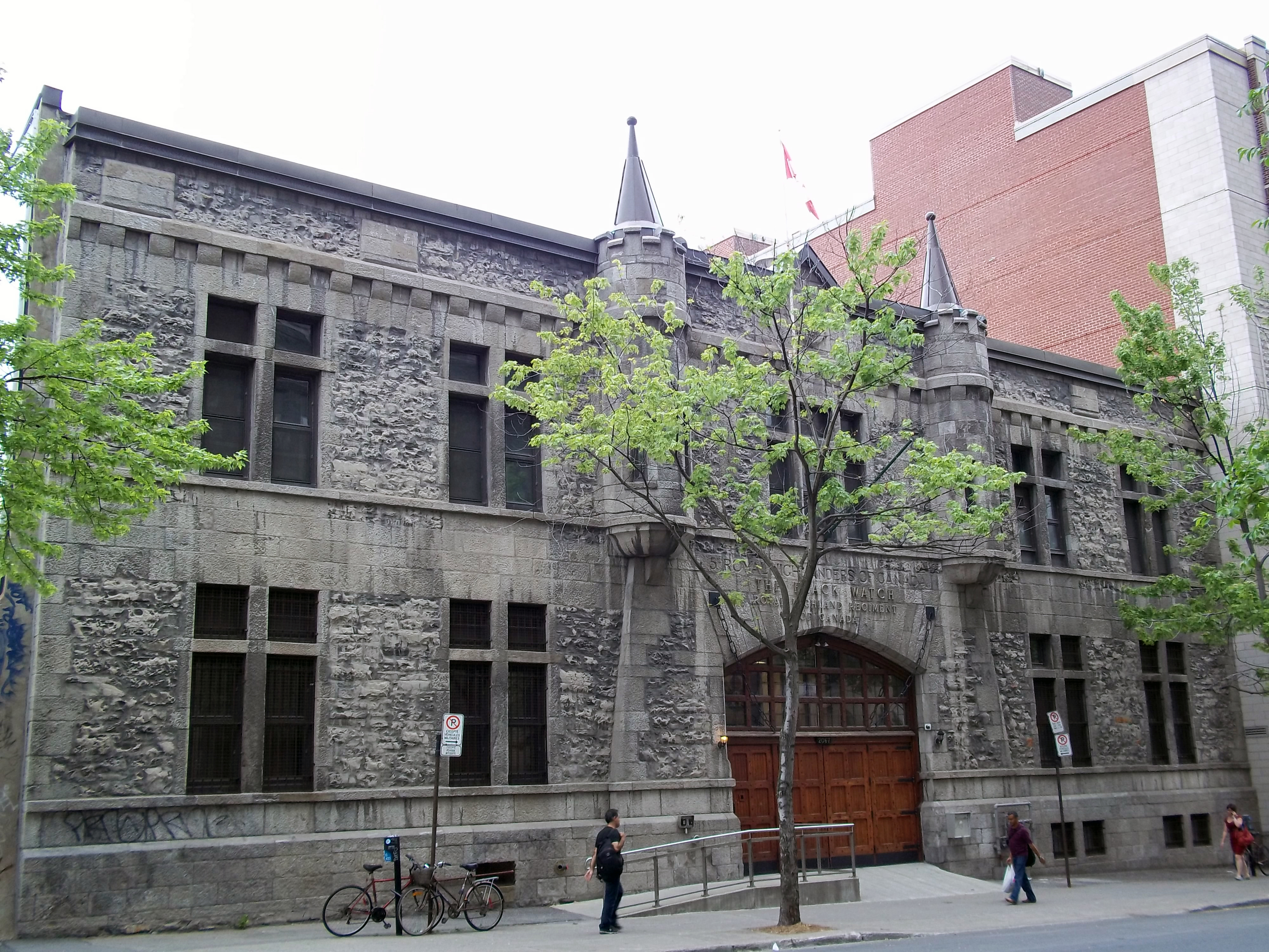 Armoury of the Black Watch of Canada, 2067, Bleury Street, Montreal